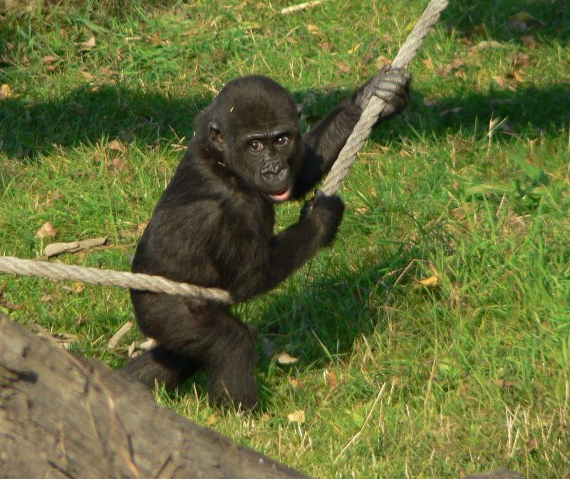 Western Lowland Gorilla, Praha Zoo